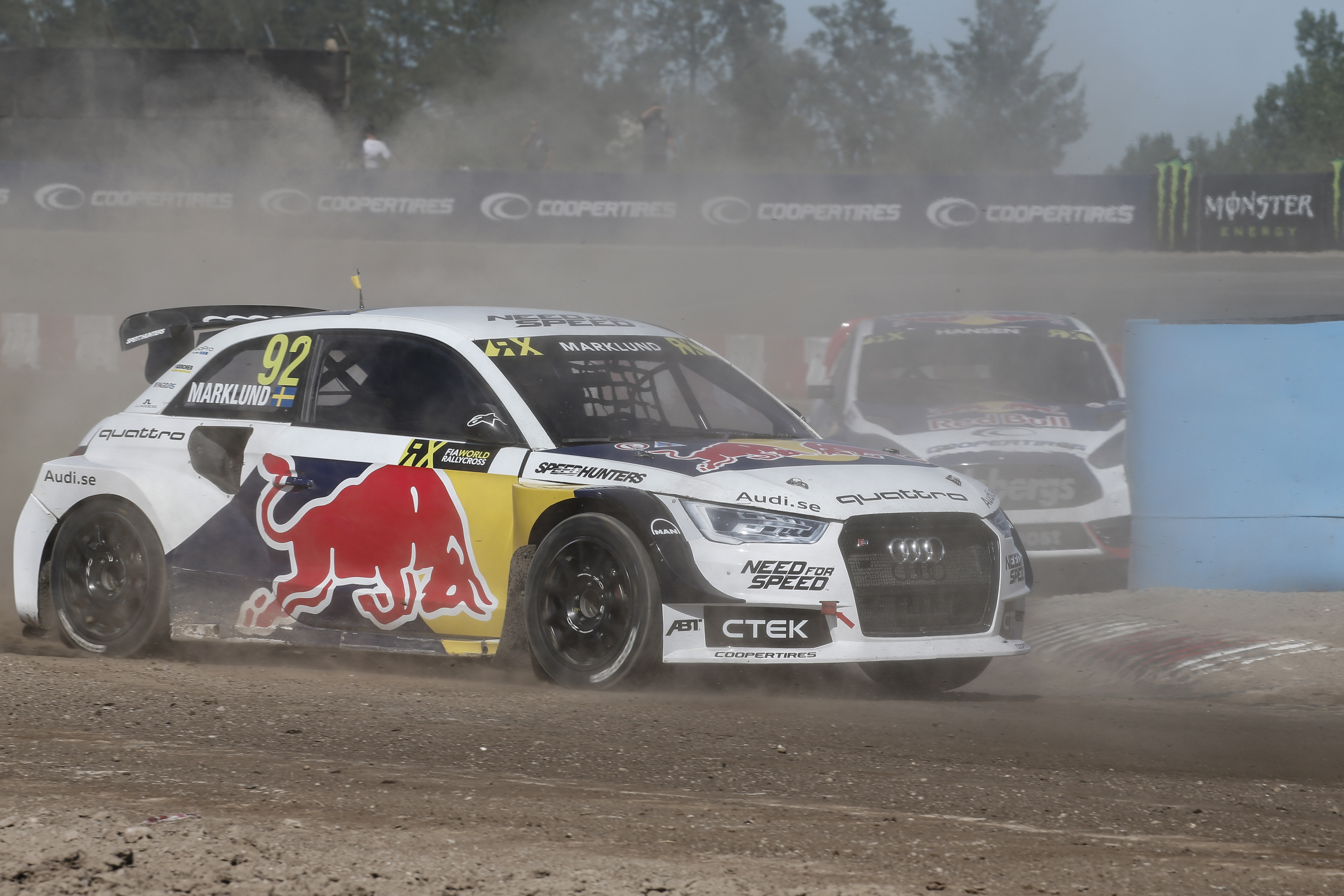 2015 FIA World Rallycross Championship // Round 13 // Rosario, Argentina // 27-29 November, 2015 // Worldwide Copyright: EKS/McKlein